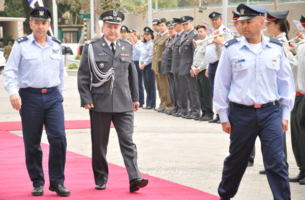 Israeli Air Force joint exercise with Polish Air Force. Commander of the IAF alongside Commander of the Polish Air Force.